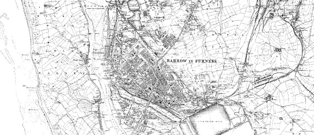 Map of Barrow-in-Furness, Lancashire, England dated 1890